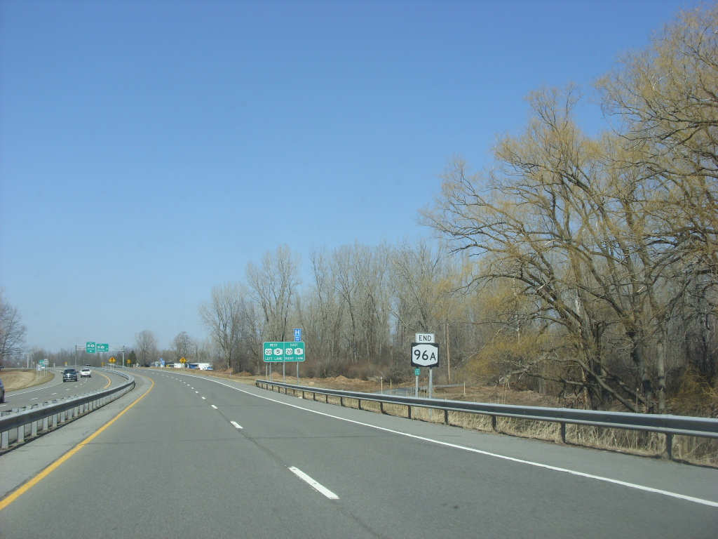 New York State Route 96A heading northward through Waterloo, approaching an intersection with US 20 and NY 5.